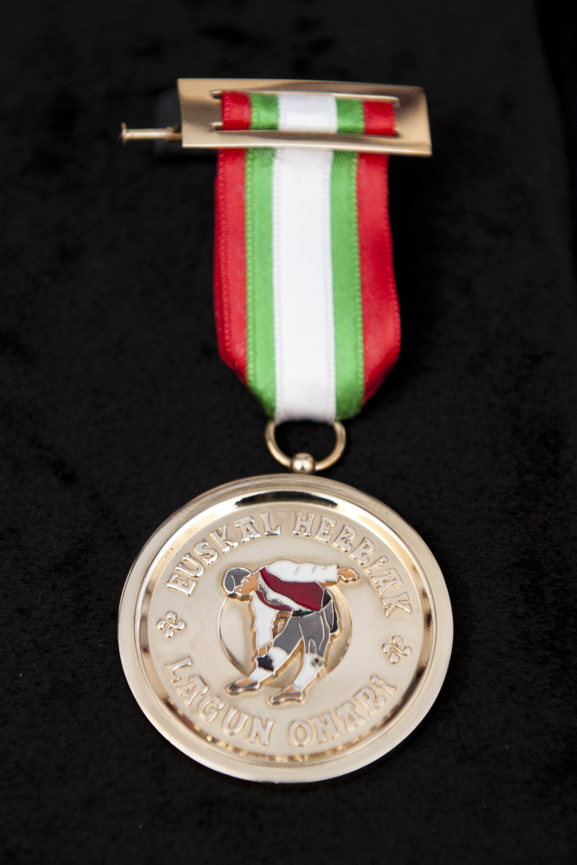 Basque Country To A Good Friend Award. Basque Goverment.